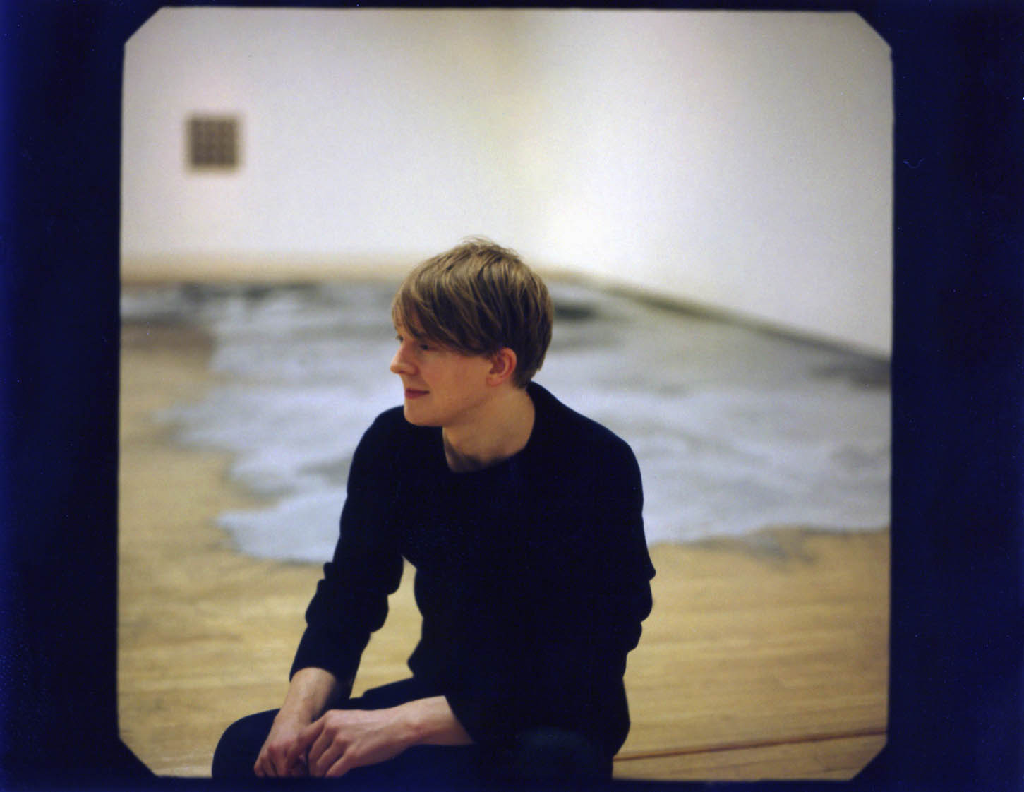 Roger Hiorns at Tate Britain in 2009 in front of his work 'untitled' 2008. On the occasion of his exhibition for the Turner Prize.